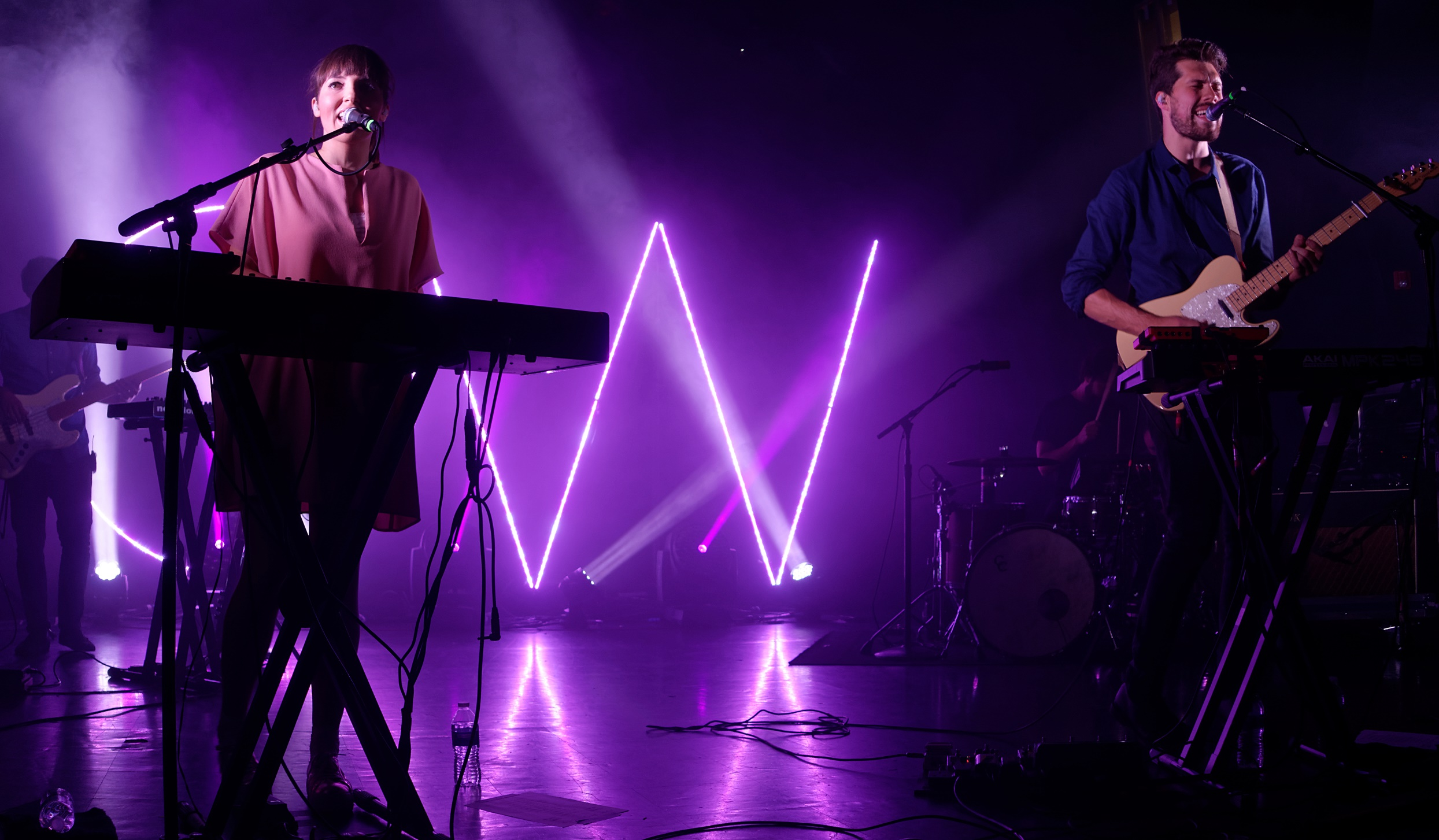 Oh Wonder at the El Rey Theatre in 2016